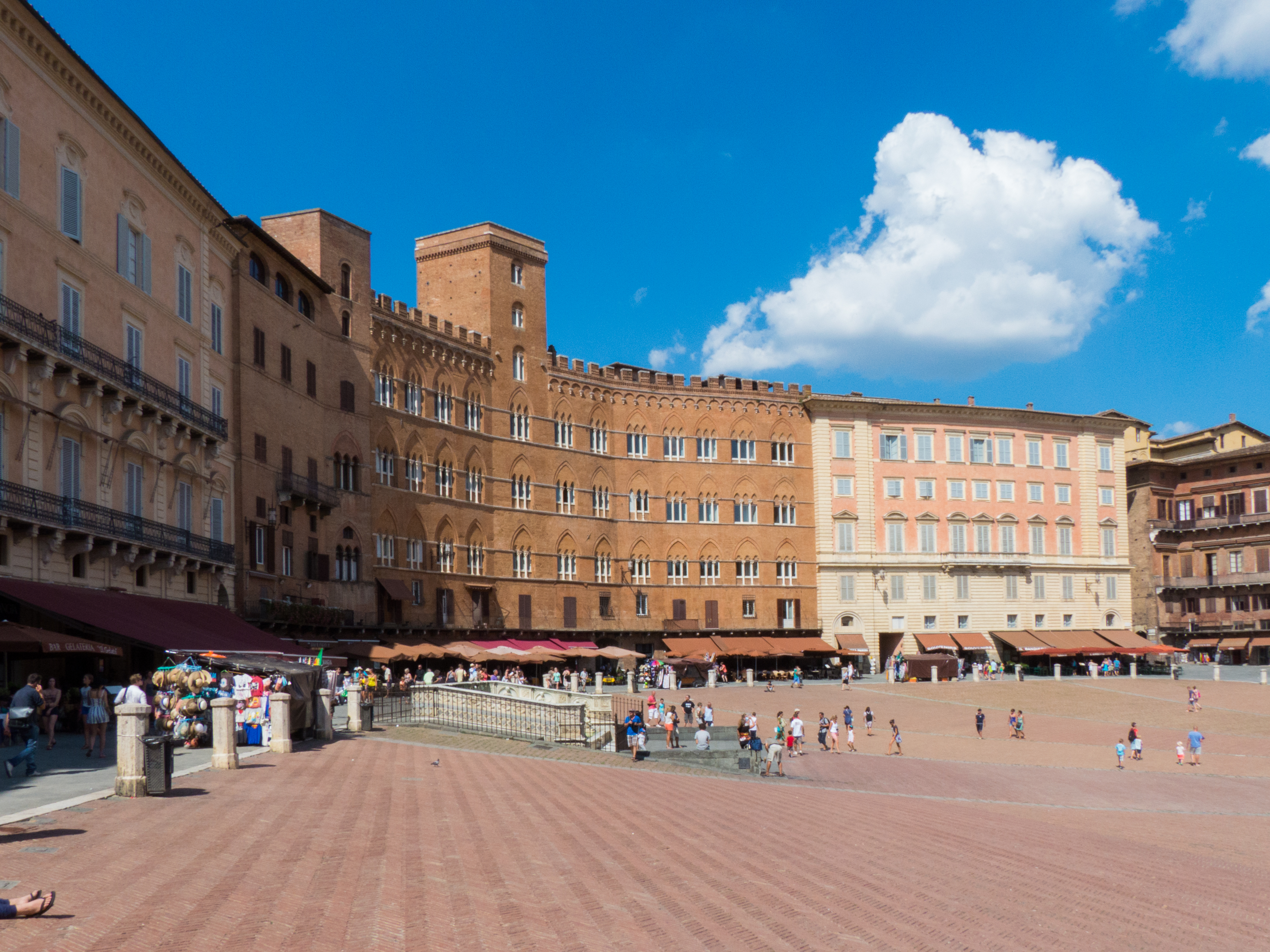 Palazzo Sansedoni, Piazza del Campo, Siena, Tuscany